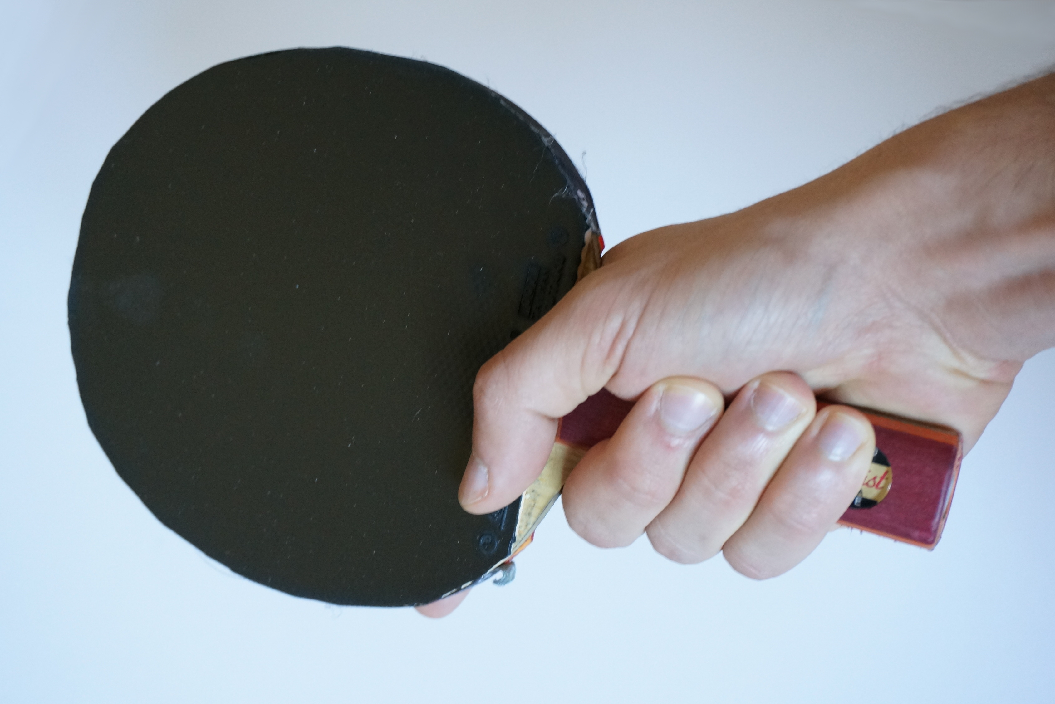 table tennis shakehand grip